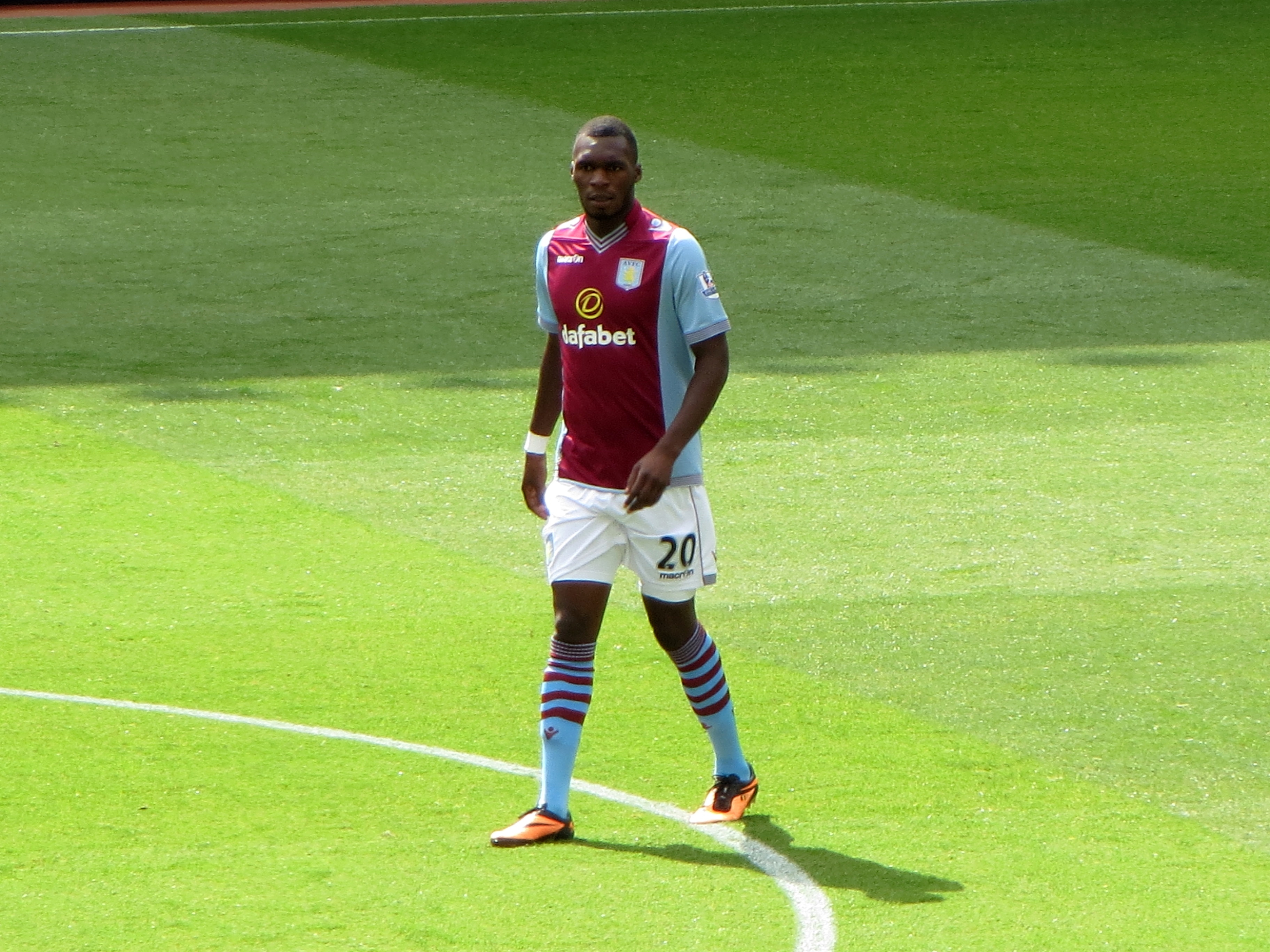 Christian Benteke playing for Aston Villa in a pre-season friendly against Malaga on 10 August 2013 at Villa Park.